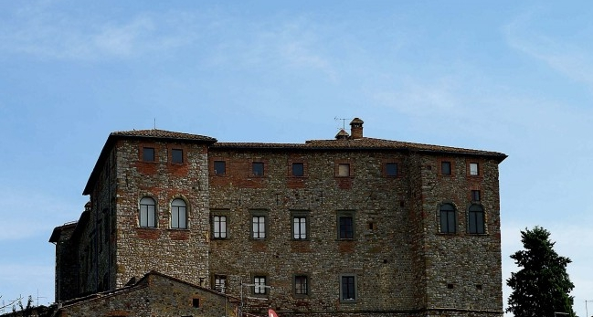 The Castle of Carnaiola